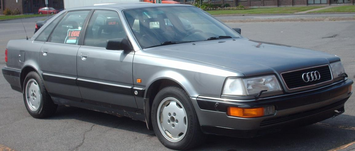 1990 Audi V8 photographed in Montreal, Quebec, Canada.